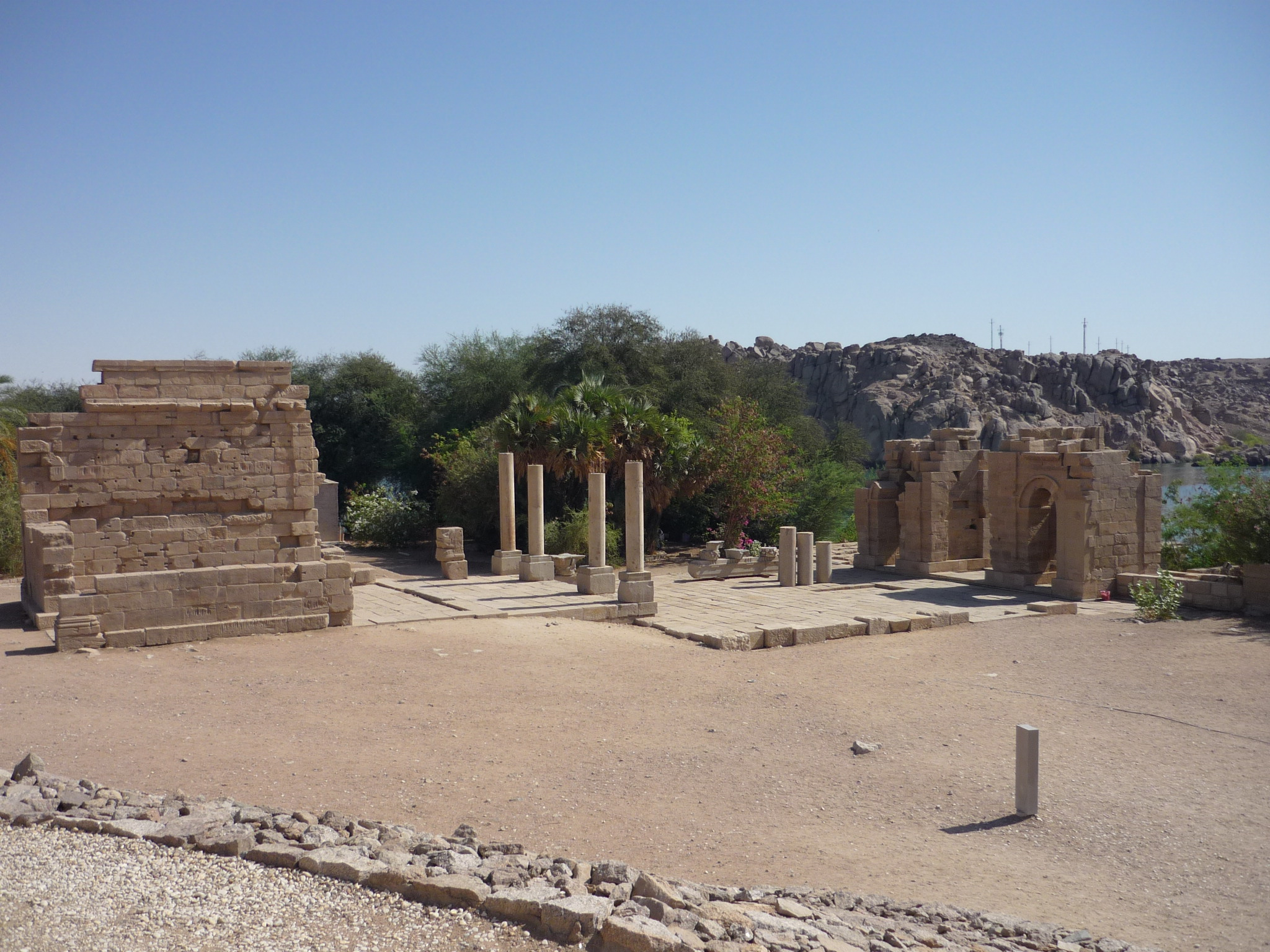 Left to right: Augustus's chapel, Diocletian's gate and roman pier, Philae Island, Egypt